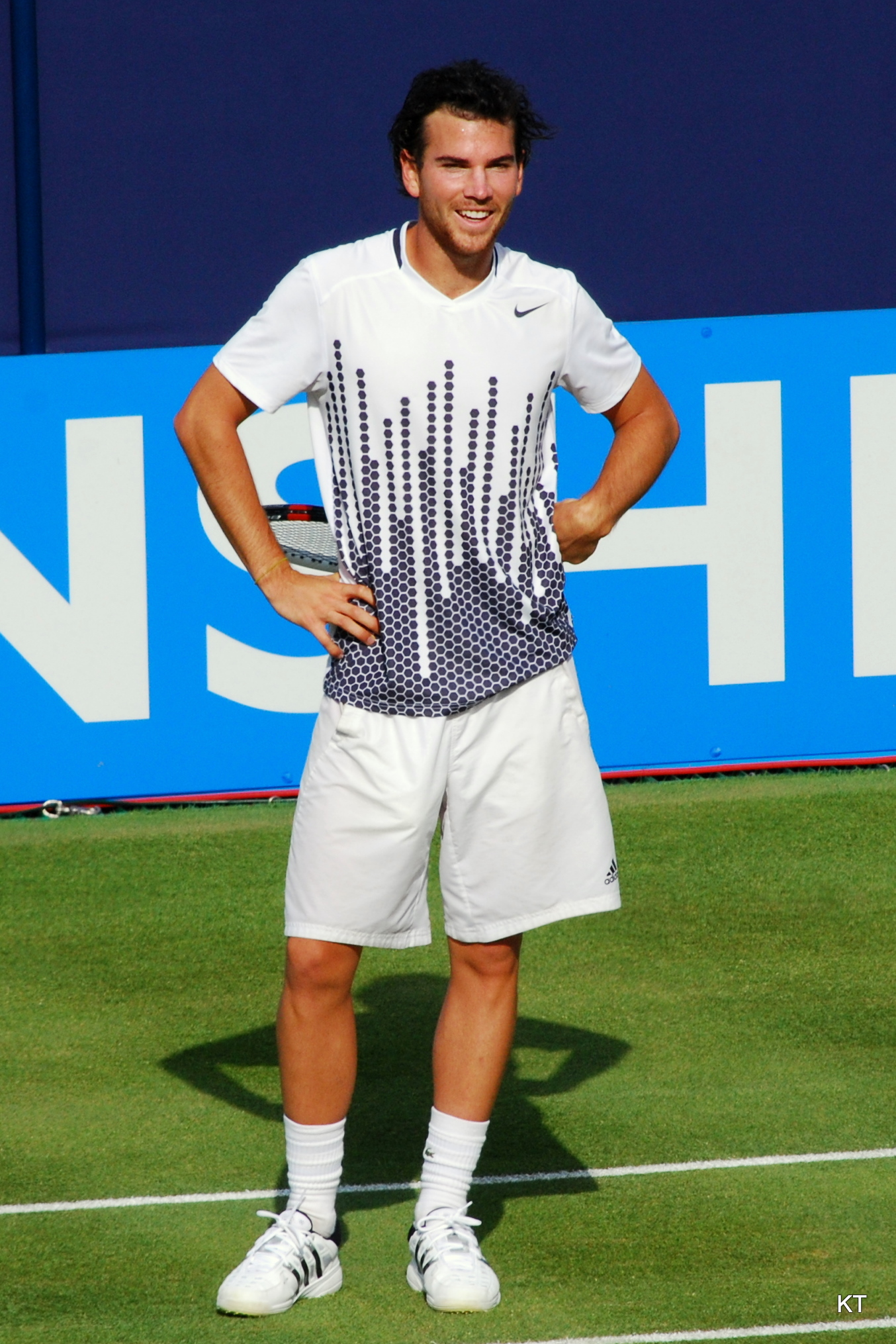 Mannarino desputing a call in his match against Juan Martin del Potro